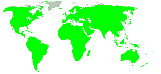 Theridiidae habitat distribution, drawn after Platnick: World Spider Catalog 7.0. This is not a precise rendering of the distribution! If you have better information, please replace this map, or send me the info, and i will redraw it.